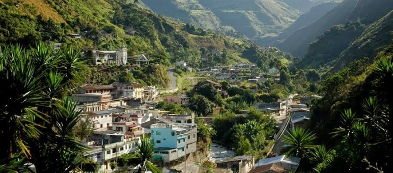 La parroquia de Huigra, es conocida como la eterna primavera gracias a su maravilloso clima y la belleza de su naturaleza.